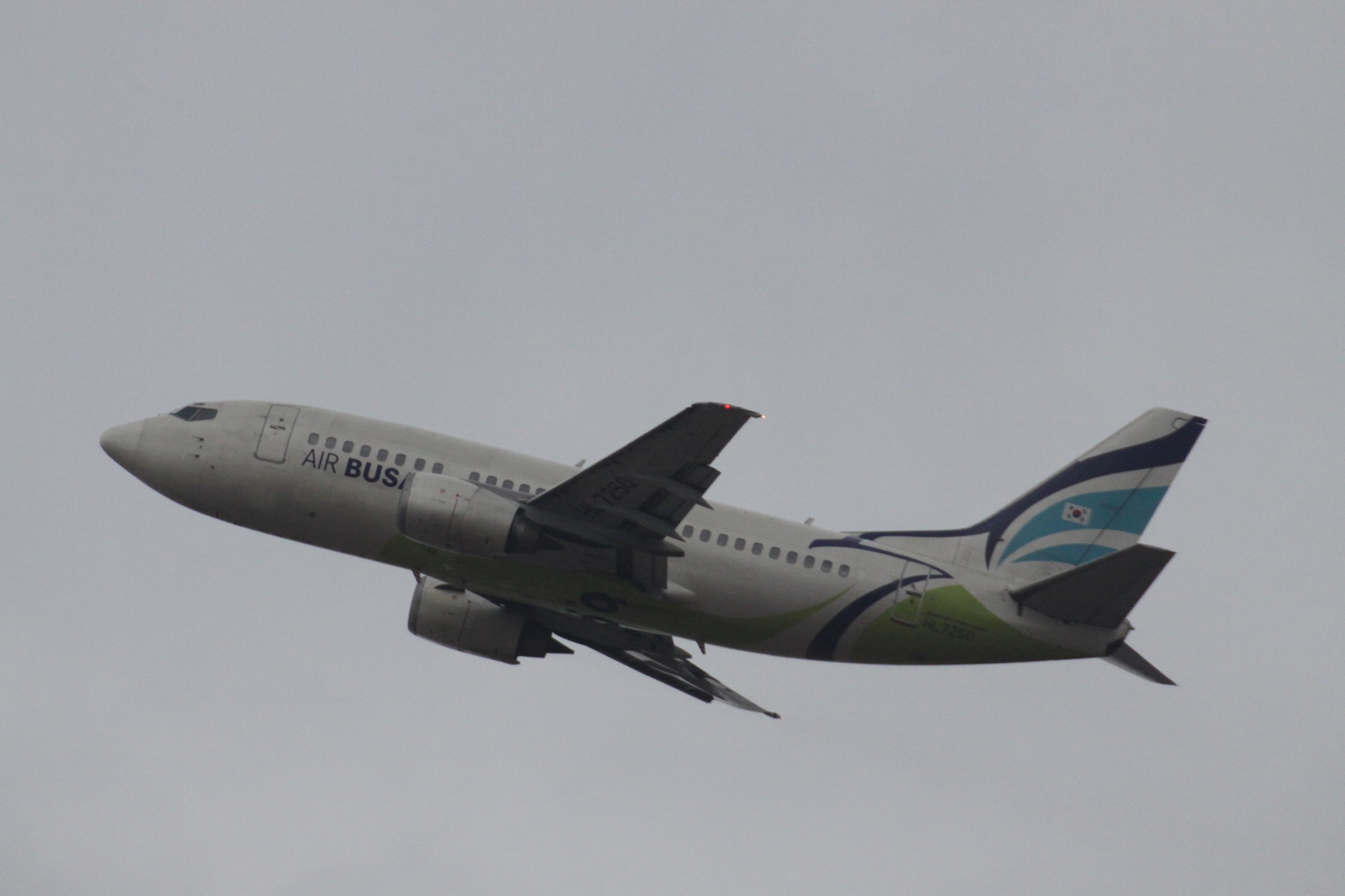 At Seoul Gimpo International Airport